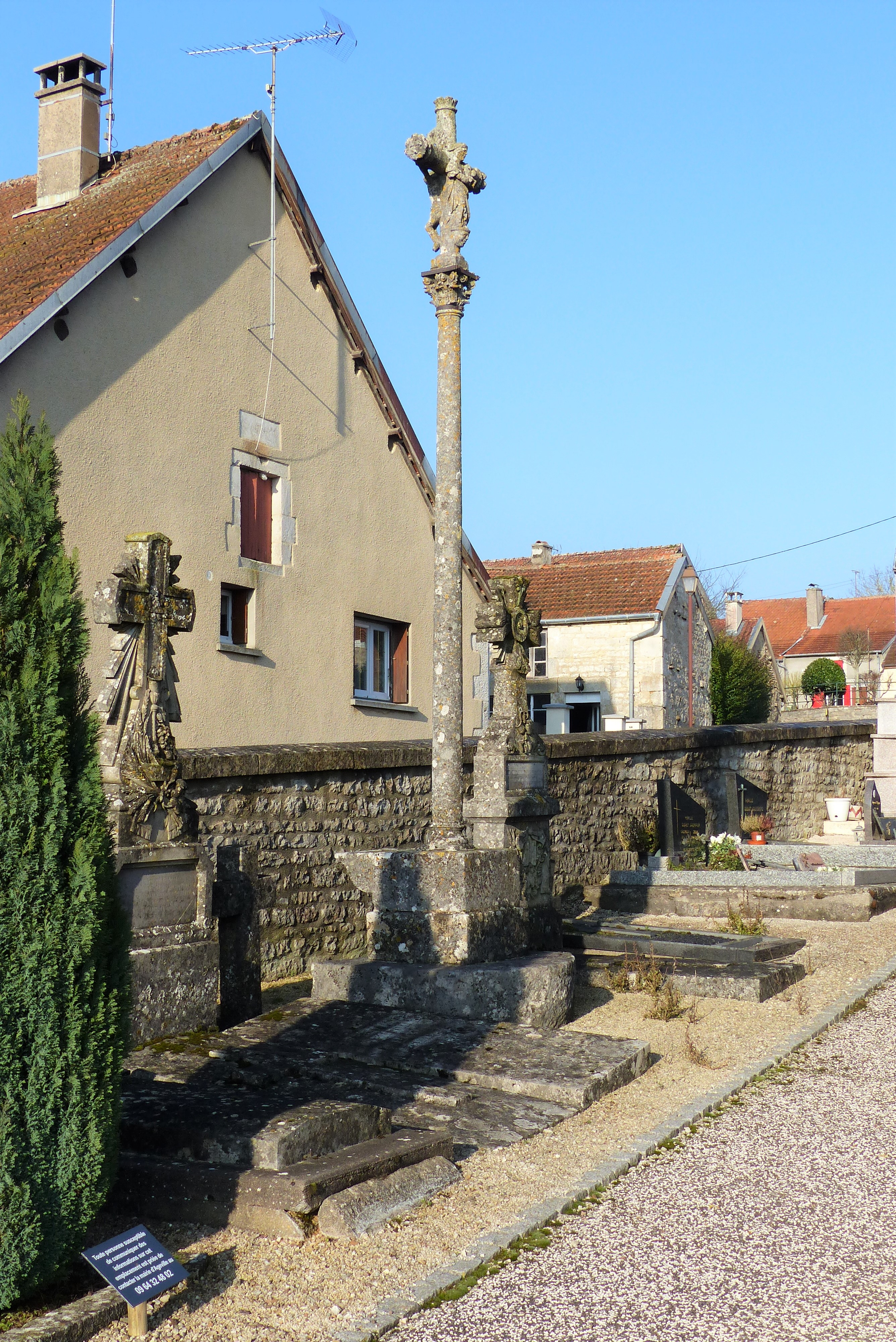 photo